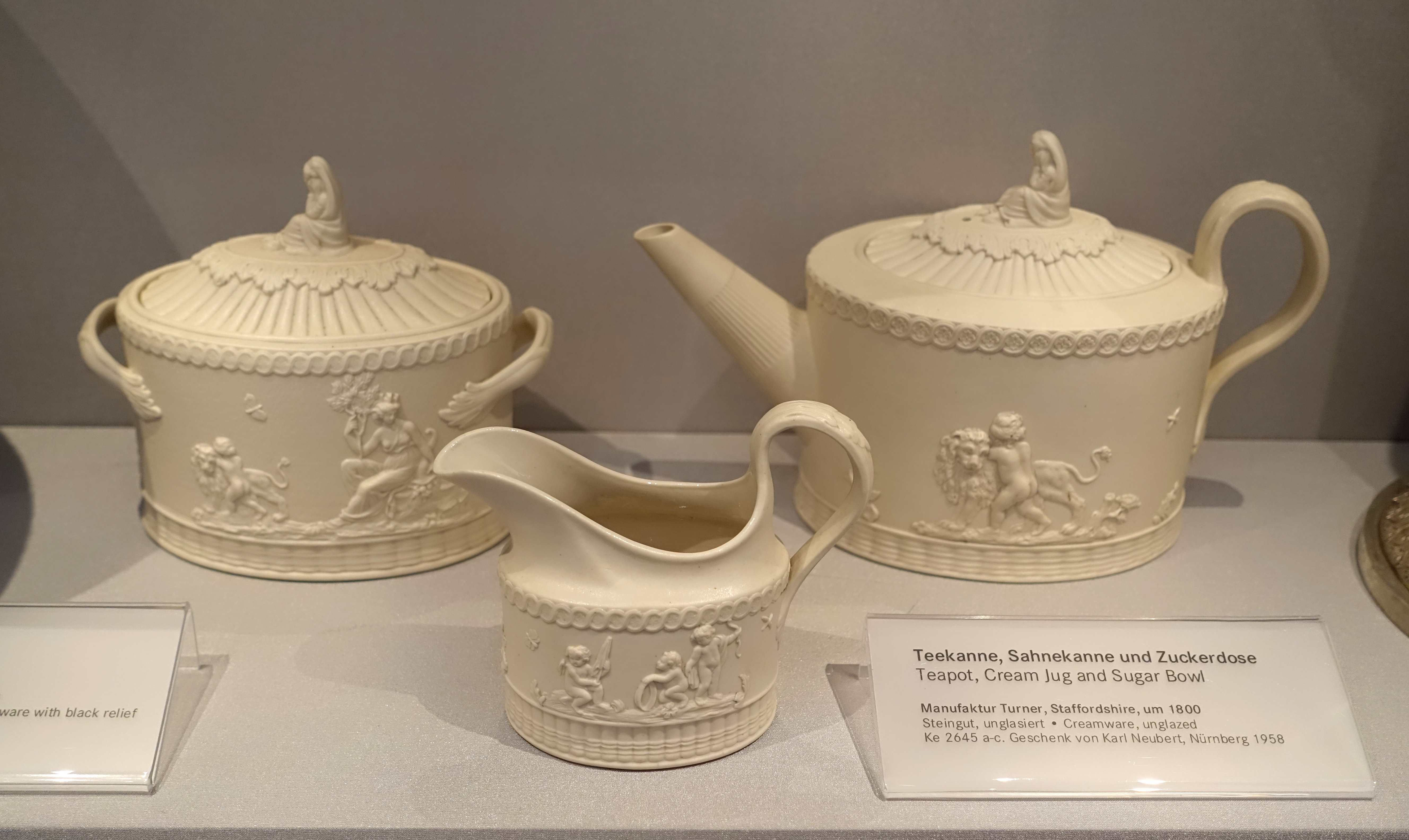 Exhibit in the Germanisches Nationalmuseum - Nuremberg, Germany.